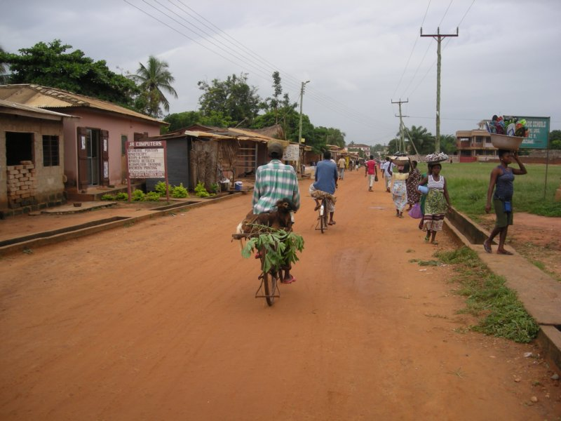 Agbozume road, Ghana